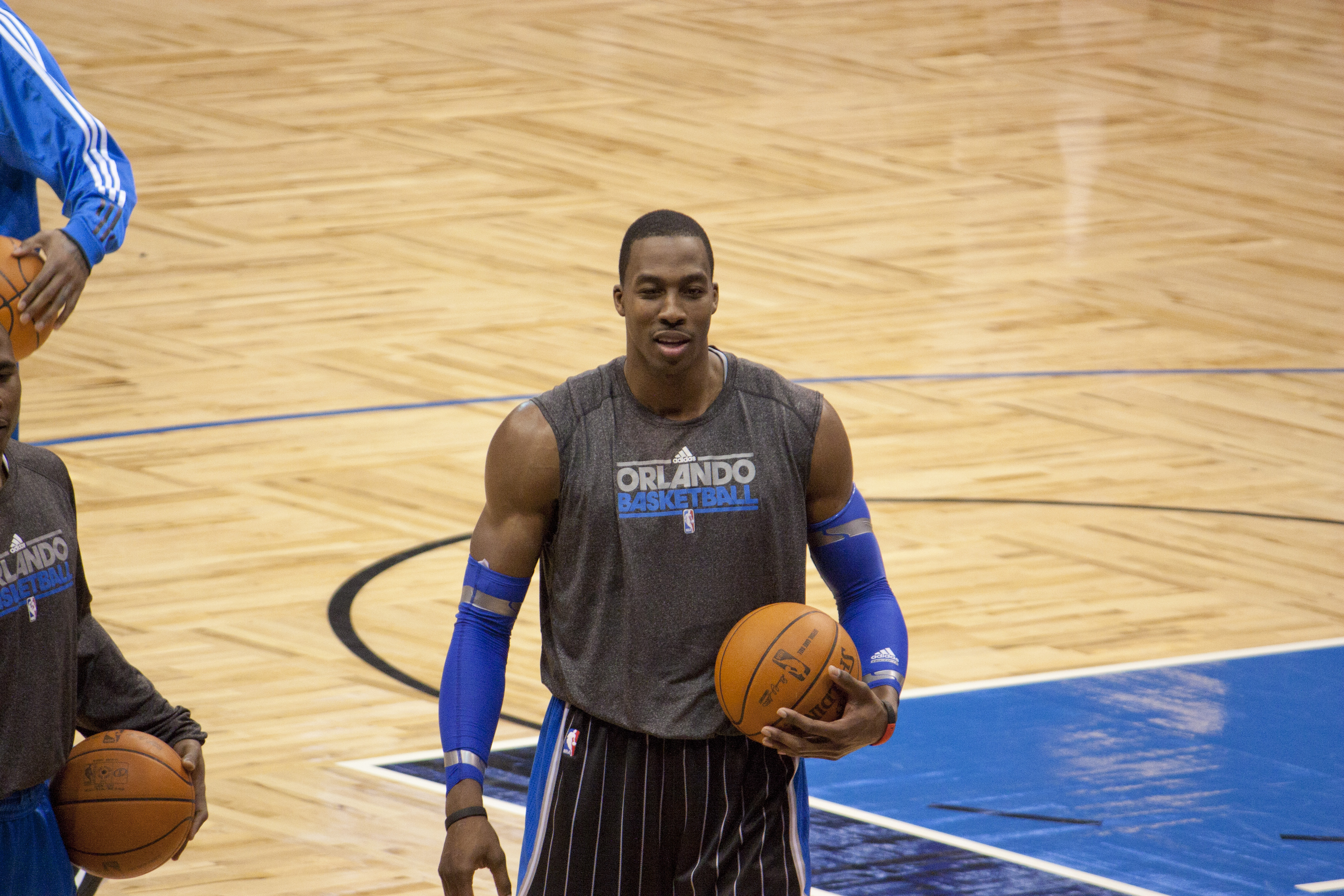 Dwight Howard of the Orlando Magic.